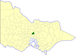 Location of the Shire of Pyalong within Victoria.